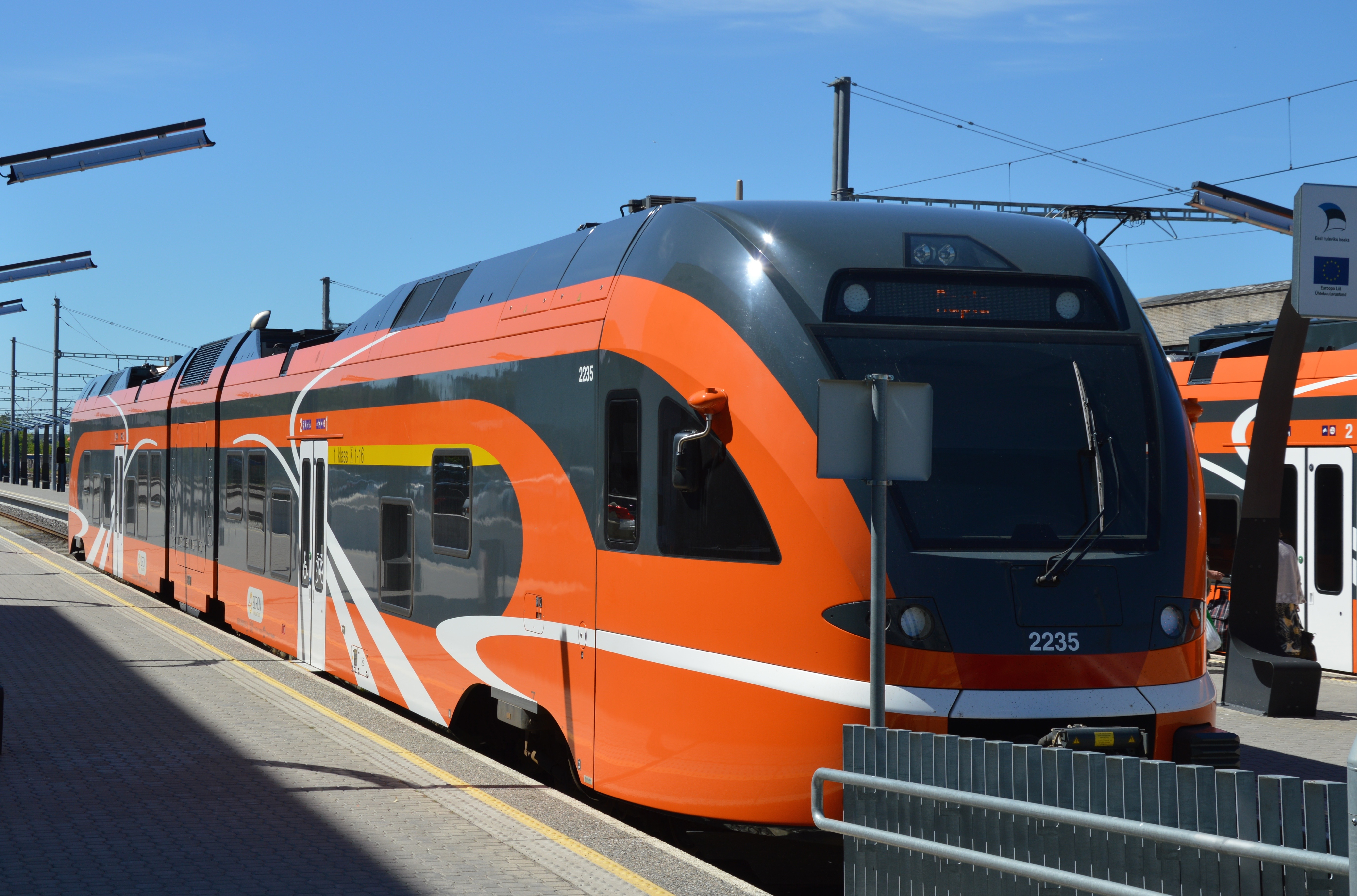 Stadler FLIRT DMU on the Baltic Railway Station (Balti jaam) in Tallinn